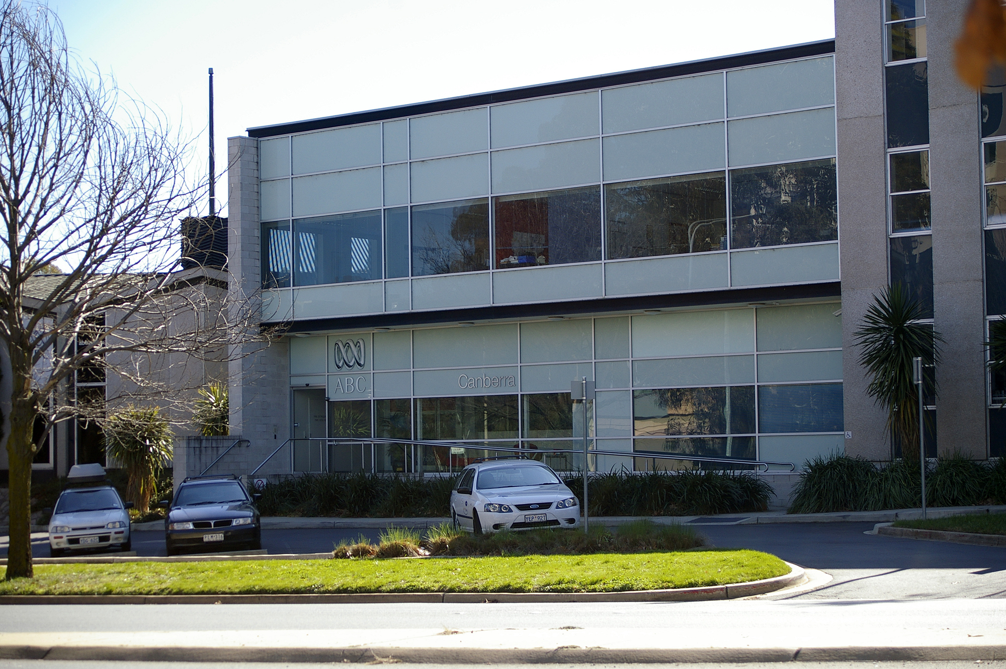 ABC Canberra radio and TV studios in the Canberra suburb of Dickson.